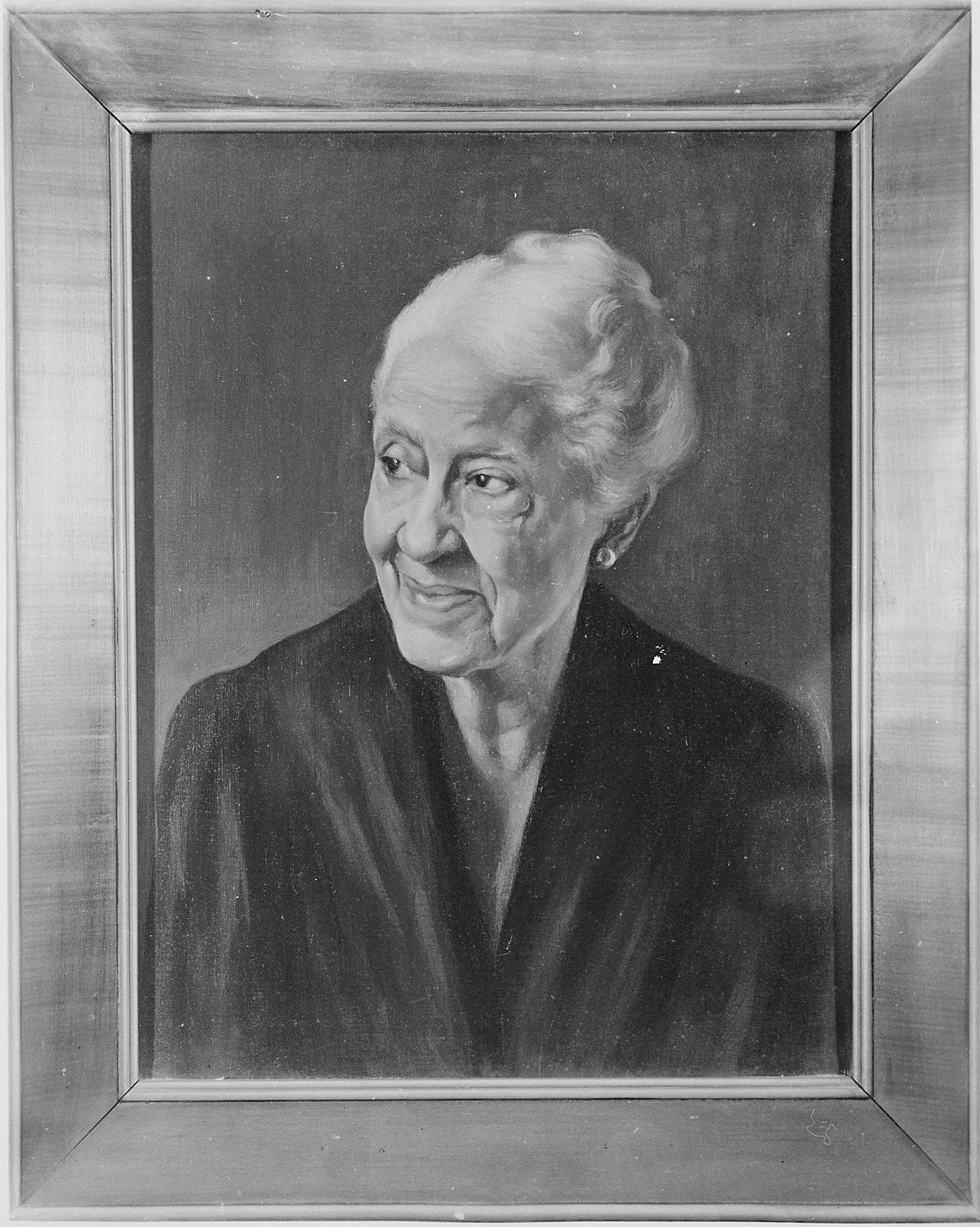 General notes: Painting